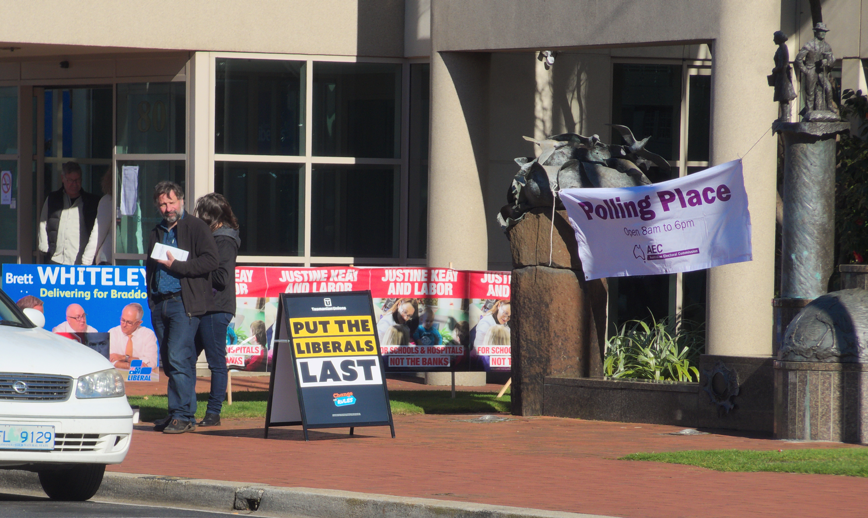 Braddon by-election of 28 July, 2018, polling station at the Burnie City Council offices.